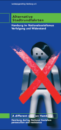 ASRF